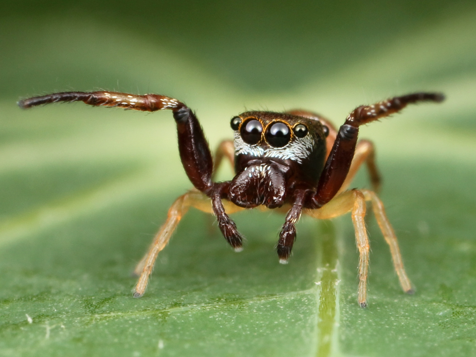 Adult male Zygoballus rufipes jumping spider from Acton, Massachusetts